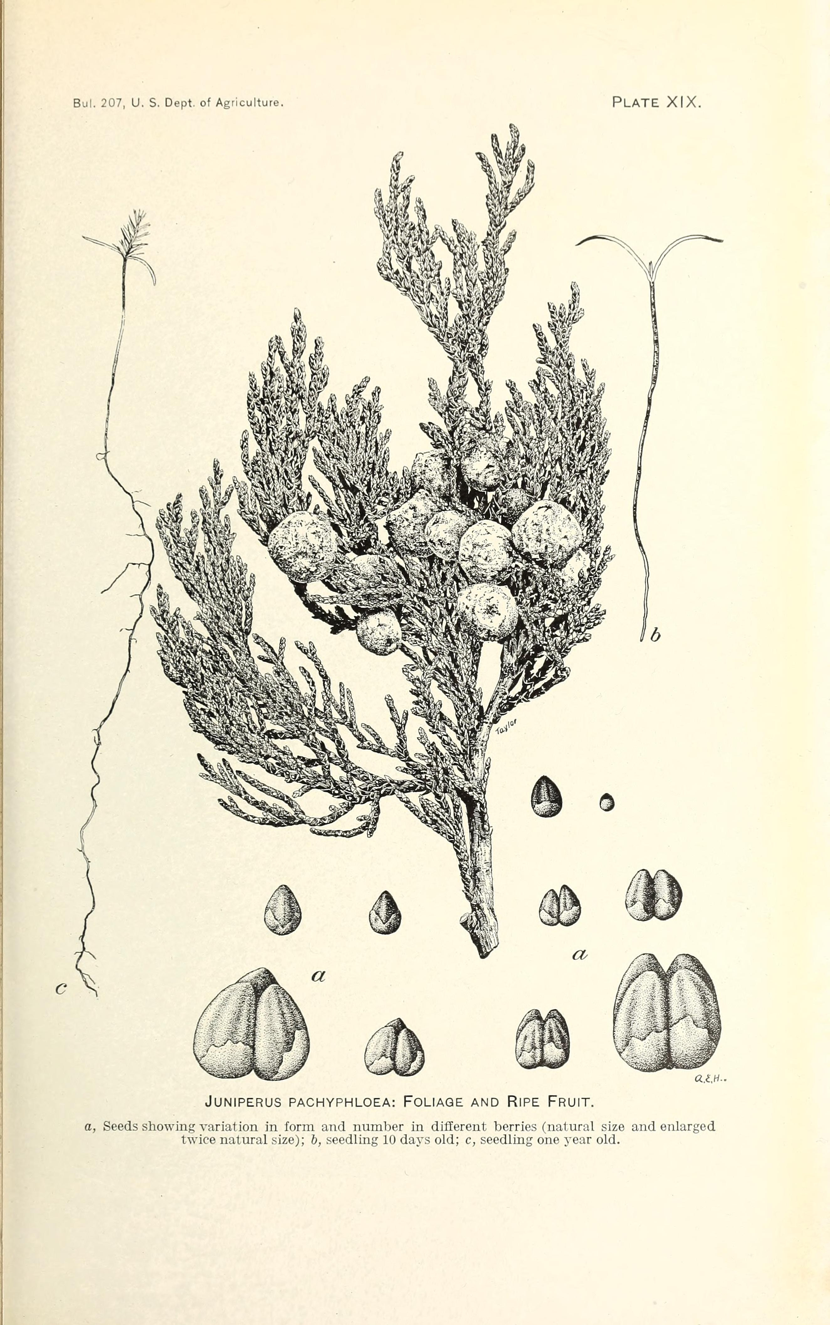 Title: The cypress and juniper trees of the Rocky Mountain region Year: 1915 (1910s) Authors: Sudworth, George B. (George Bishop), 1864-1927 United States. Department of Agriculture Subjects: Conifers Cypress Junipers Publisher: Washington, D.C. : U.S. Dept. of Agriculture Text Appearing Before Image: ection 11 or 14, township 9 south, an unsurveyed region, is on the westbank of the San Francisco River at a point about halfway between the towns of Alma and Frisco, and 3miles above the Widow Kelleys Ranch. Forest Supervisor William H. Goddard later reported having seen a juniper, which may prove to beJ. megalocarpa, on a small tributary of San Francisco River at a point about 6 miles west of Pleasanton,N. Mex., some 20 miles from Mr. Mattoons type locality and near the east border of Arizona. Thewriter has not seen specimens of this tree. Prof. C S. Sargent also informed the writer (Nov. 6,1914) that several years ago he collected specimensof this tree on the rim of Oak Creek Canyon, 20 miles south of Flagstaff, Ariz., and that three or four yearslater Prof. Percival Lowell also collected specimens at Angell, near Flagstafi, Ariz. Further explorations should extend the trees range. 2 Forestry and Irrigation, XIII, figs. 1 and 2 (1907). il. 207, U. S. Dept. of Agriculture. Plate XIX. Text Appearing After Image: JUNIPERUS PACHYPHLOEA: FOLIAGE AND RlPE FRUIT. a, Seeds showing variation in form and number in different berries (natural size and enlargedtwice natural size); b, seedling 10 days old; c, seedling one year old. iul. 207, U S. Dept. of Agricultu